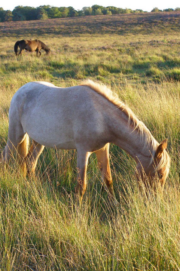 Ponies in the mire near Ferny Crofts, New Forest